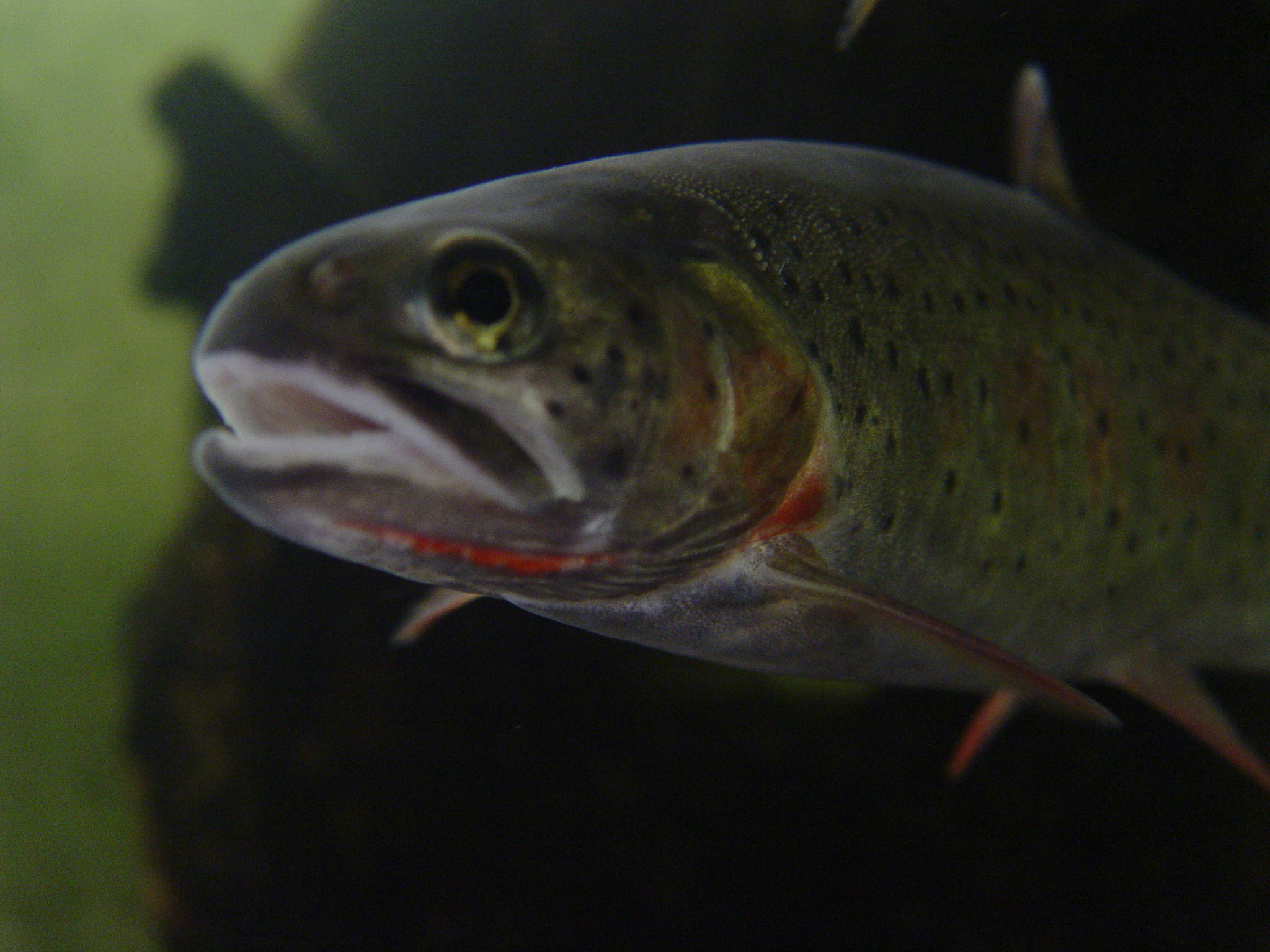 A Trout, on Sept. 28, 2005.